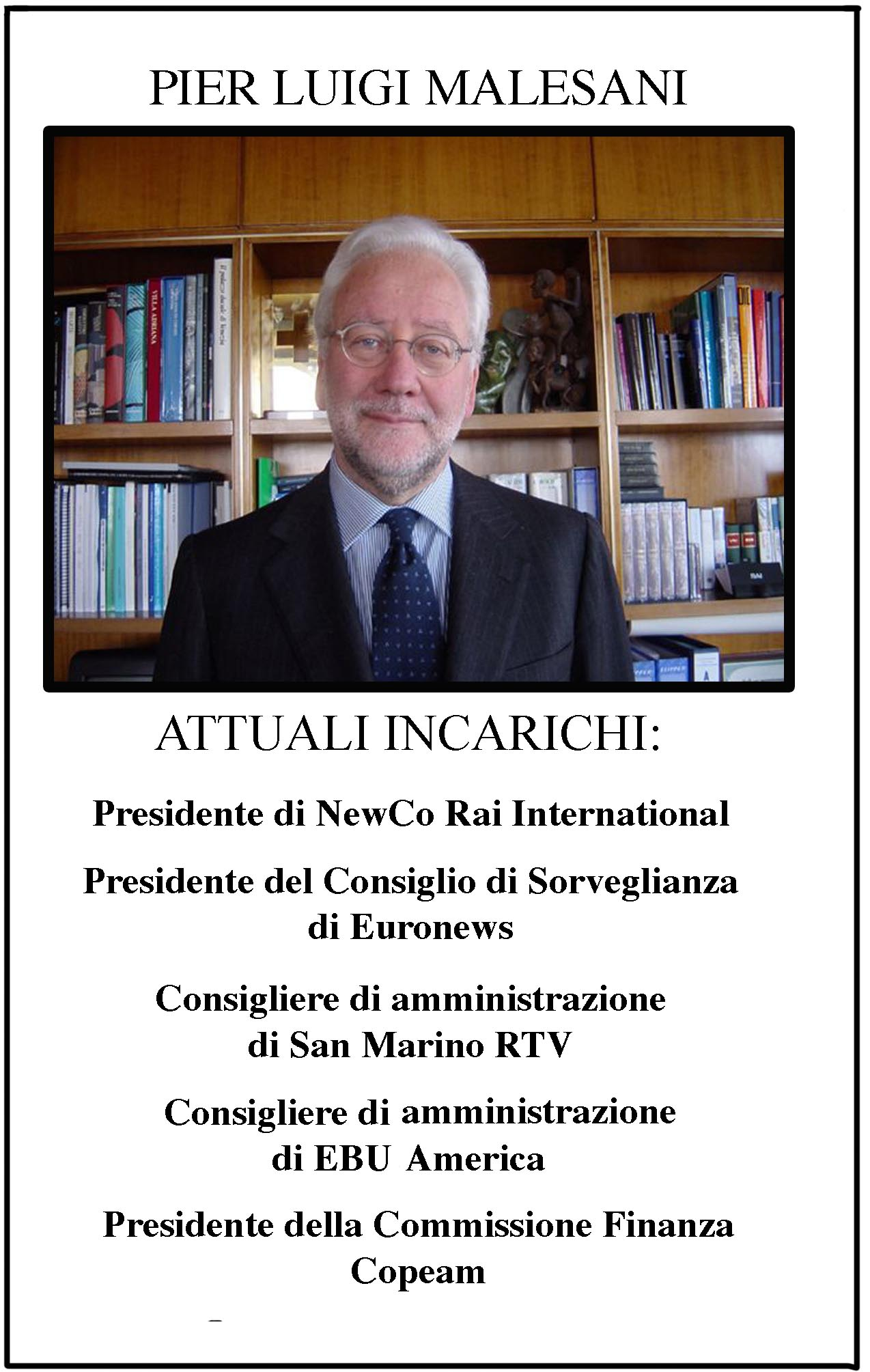 Pier Luigi Malesani